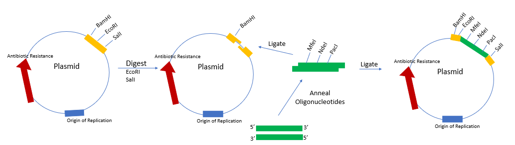 This image shows the process of putting a multiple cloning site into a plasmid vector.